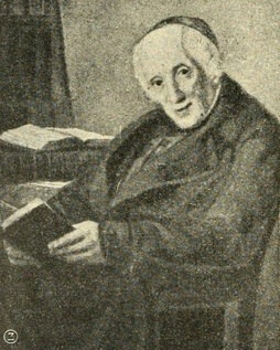 Portrait of the Italian educator Giuseppe Taverna. In "Profili di illustri piacentini" by Andrea Corna (Piacenza, 1914)